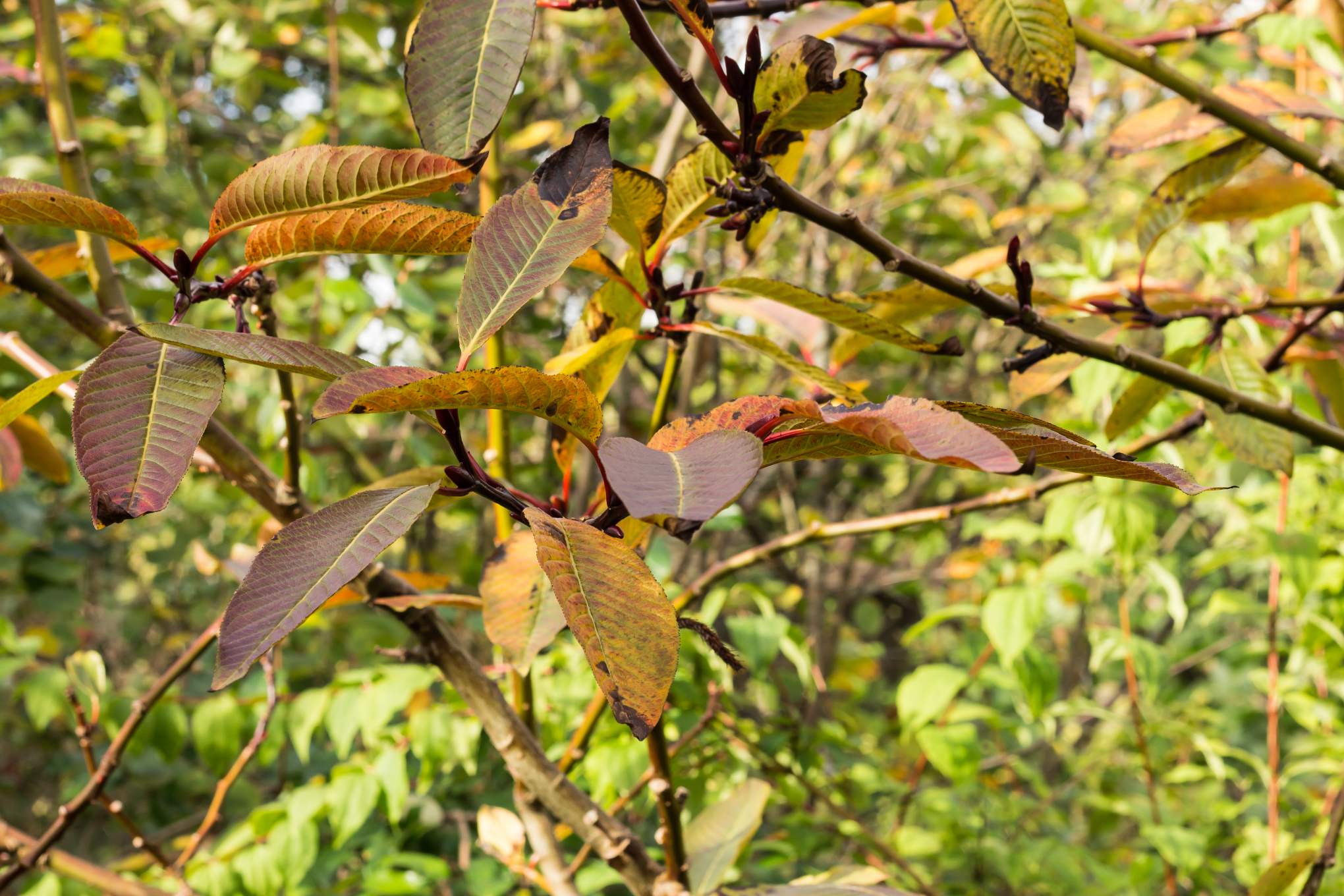 Salix moupinensis: Autumn colours.